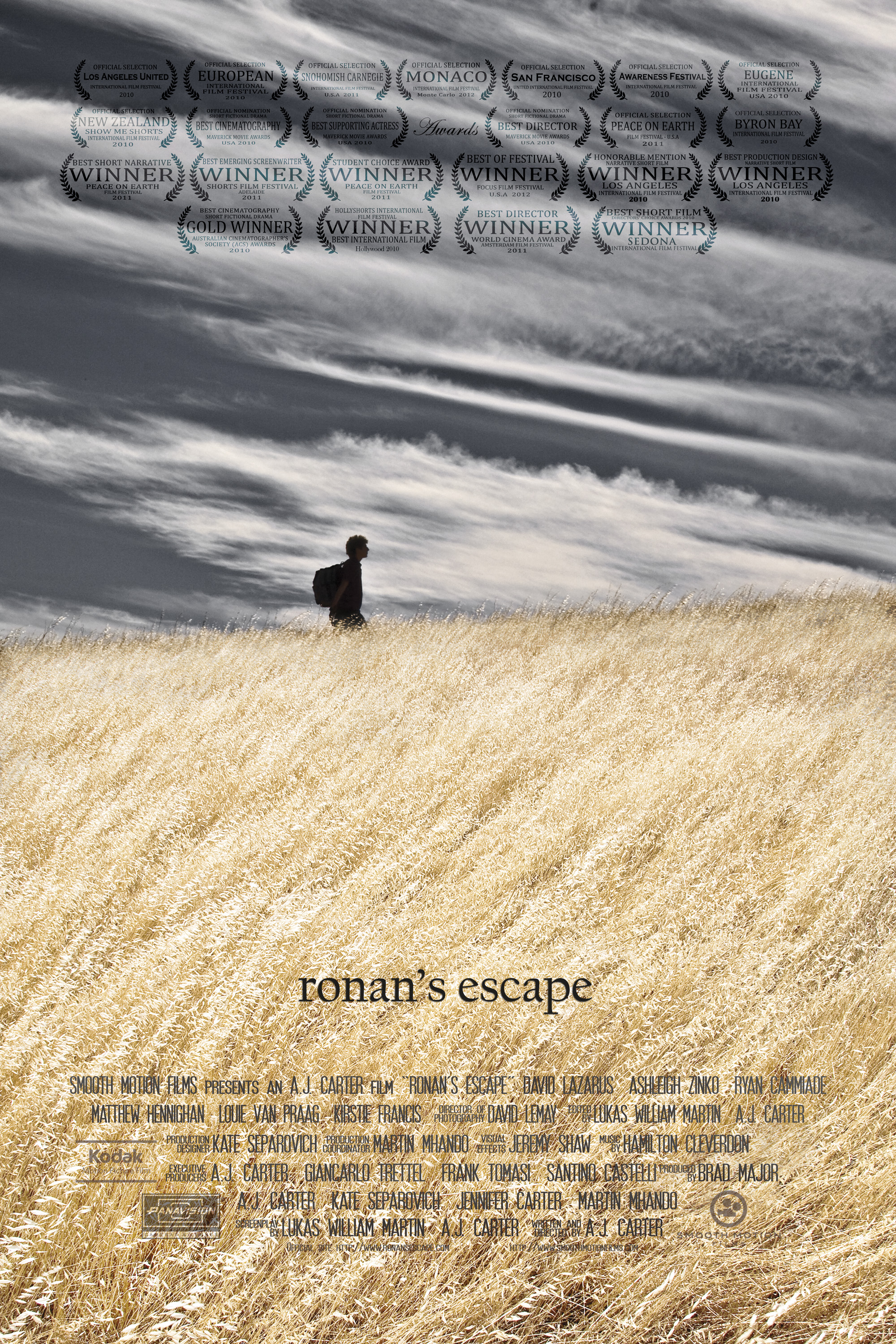 Ronan's Escape Movie Poster